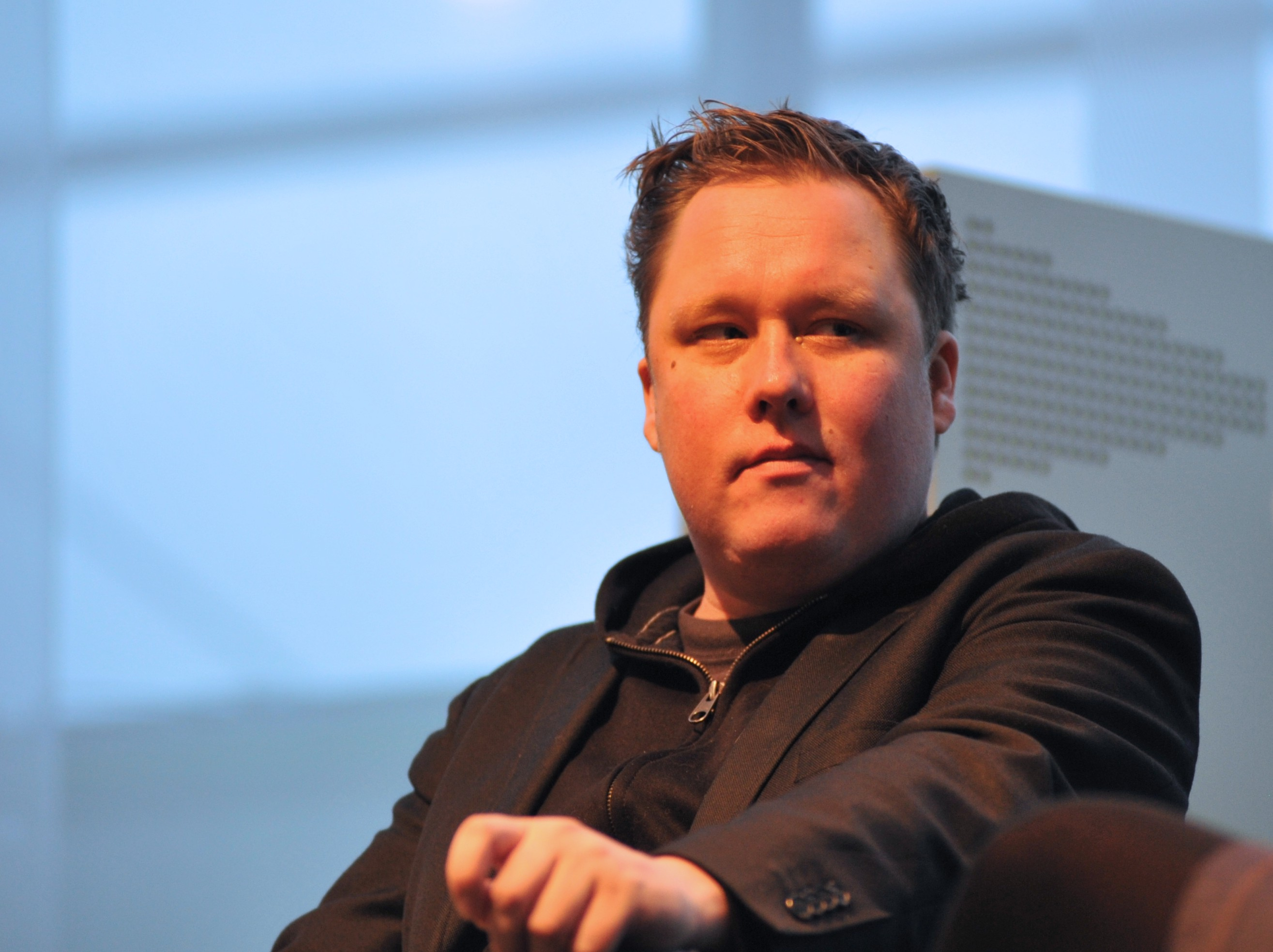 Mikko Rimminen, Finnish writer, Sanomatalo, Helsinki, November 2010.